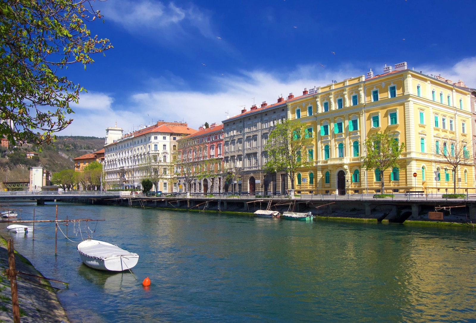 Rijeka - River Rječina